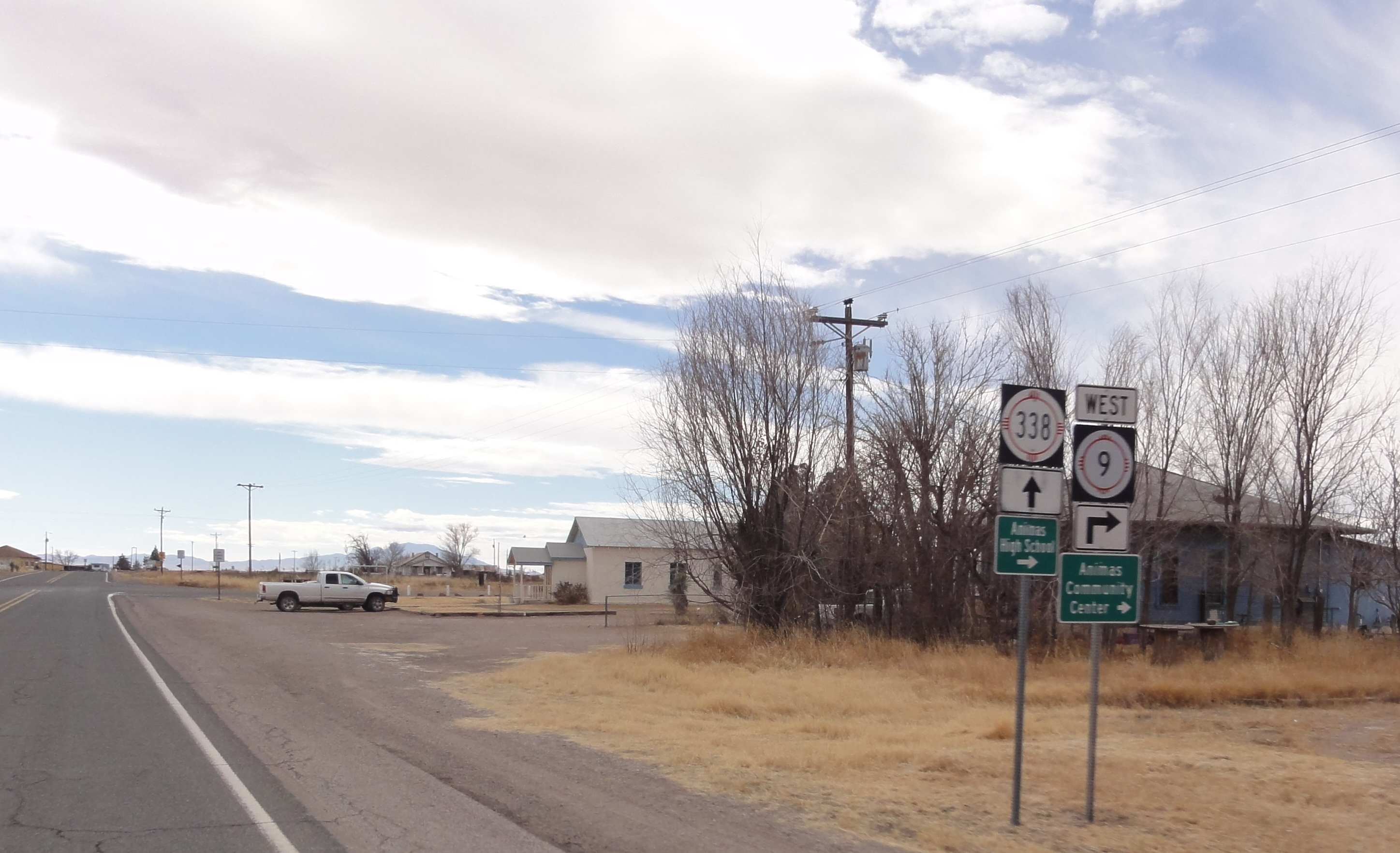 New Mexico State Road 9 approaching its junction with New Mexico State Road 338